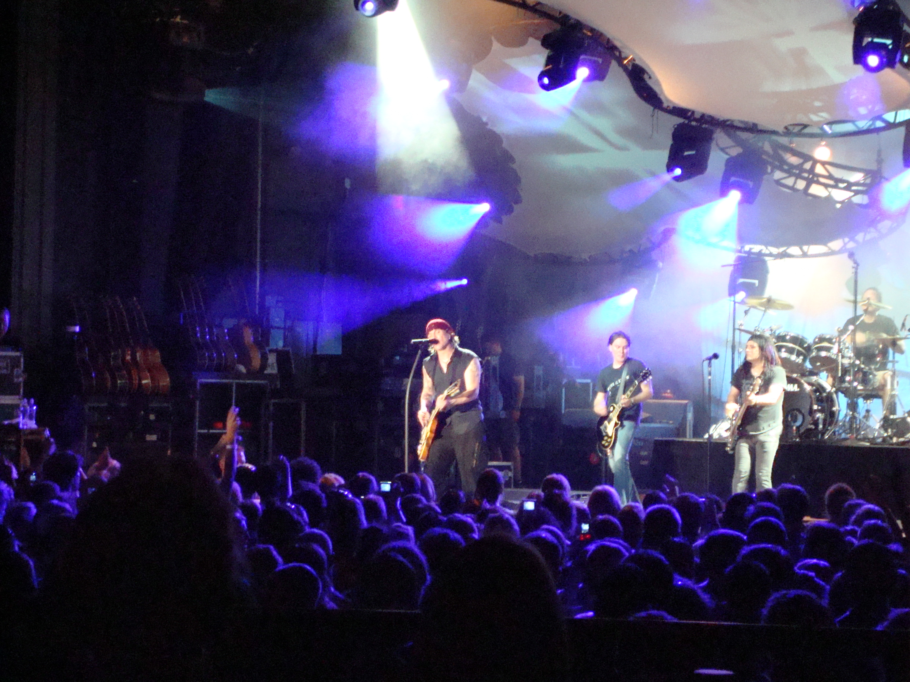 The Goo Goo Dolls in concert at the Lifestyle Communities Pavilion in Columbus. Self made photo.